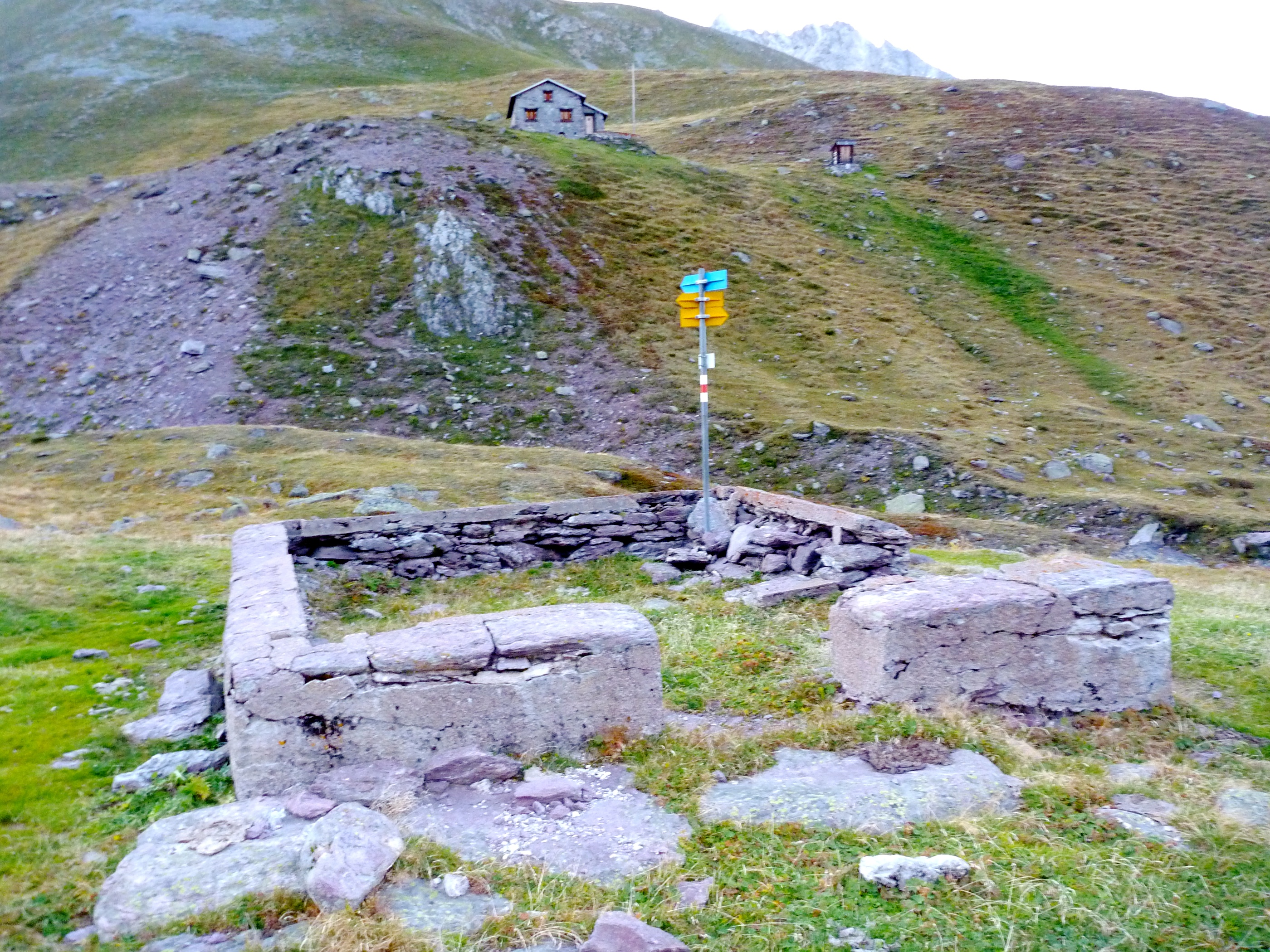 At Ramozhütte, Arosa: ruins of old in front of new hut